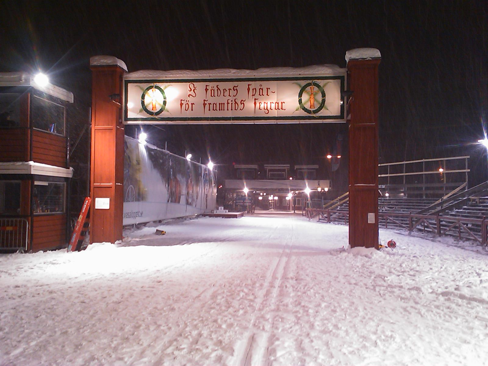 Finish portal of the Vasaloppet ski race